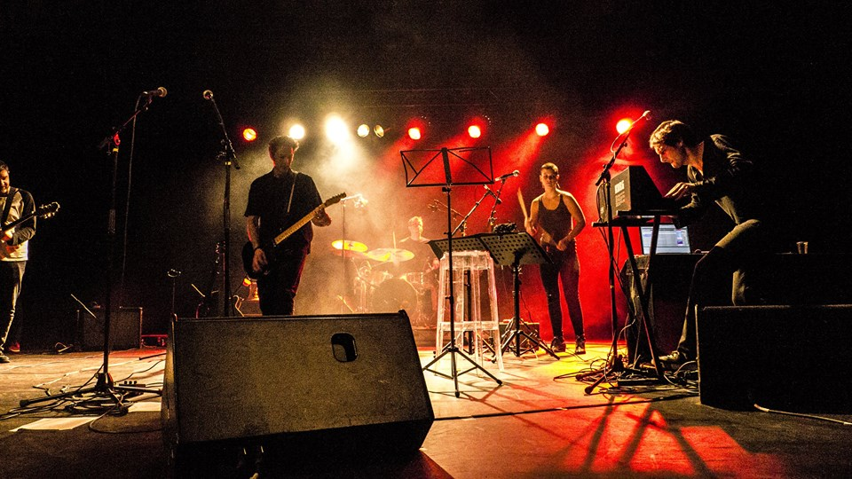 Achab live in Paris - 2017